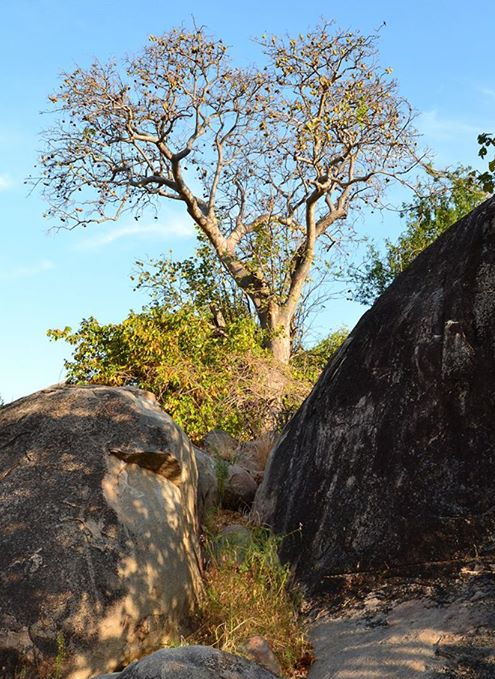 Sterculia africana (Lour.) Fiori - Namaso Bay, Southern Lake Malawi.